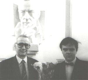 Alexey Suchkov with Maestro Yevgeny Malinin